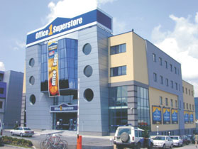 Office 1 Headquarters in Sofia, Bulgaria